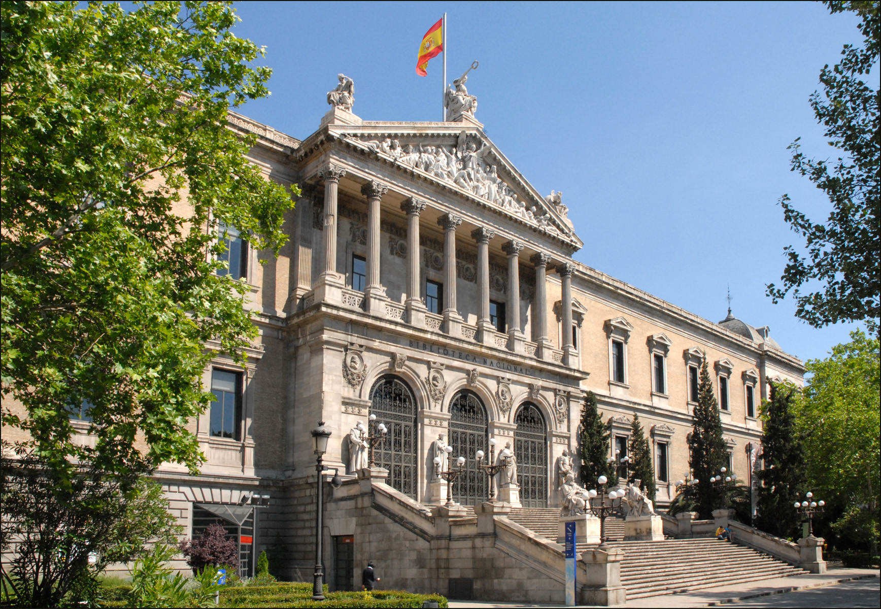 Façade of the National Library of Spain (Madrid).